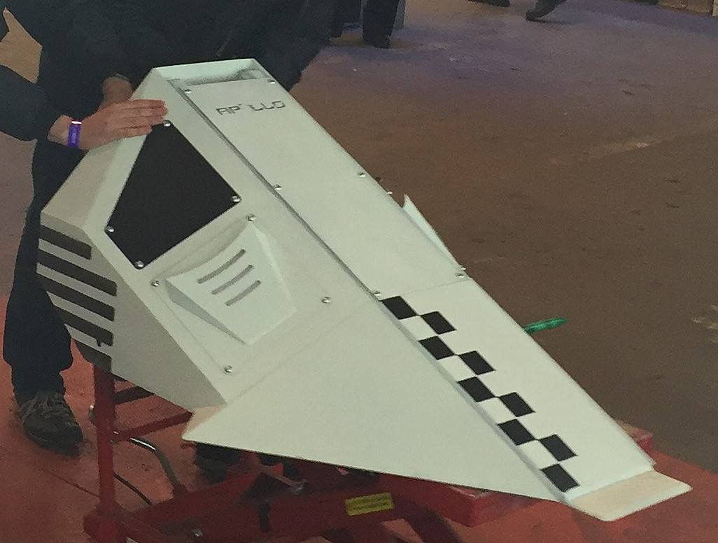 Photo of Apollo (robot) at the filming of Robot Wars 2017.